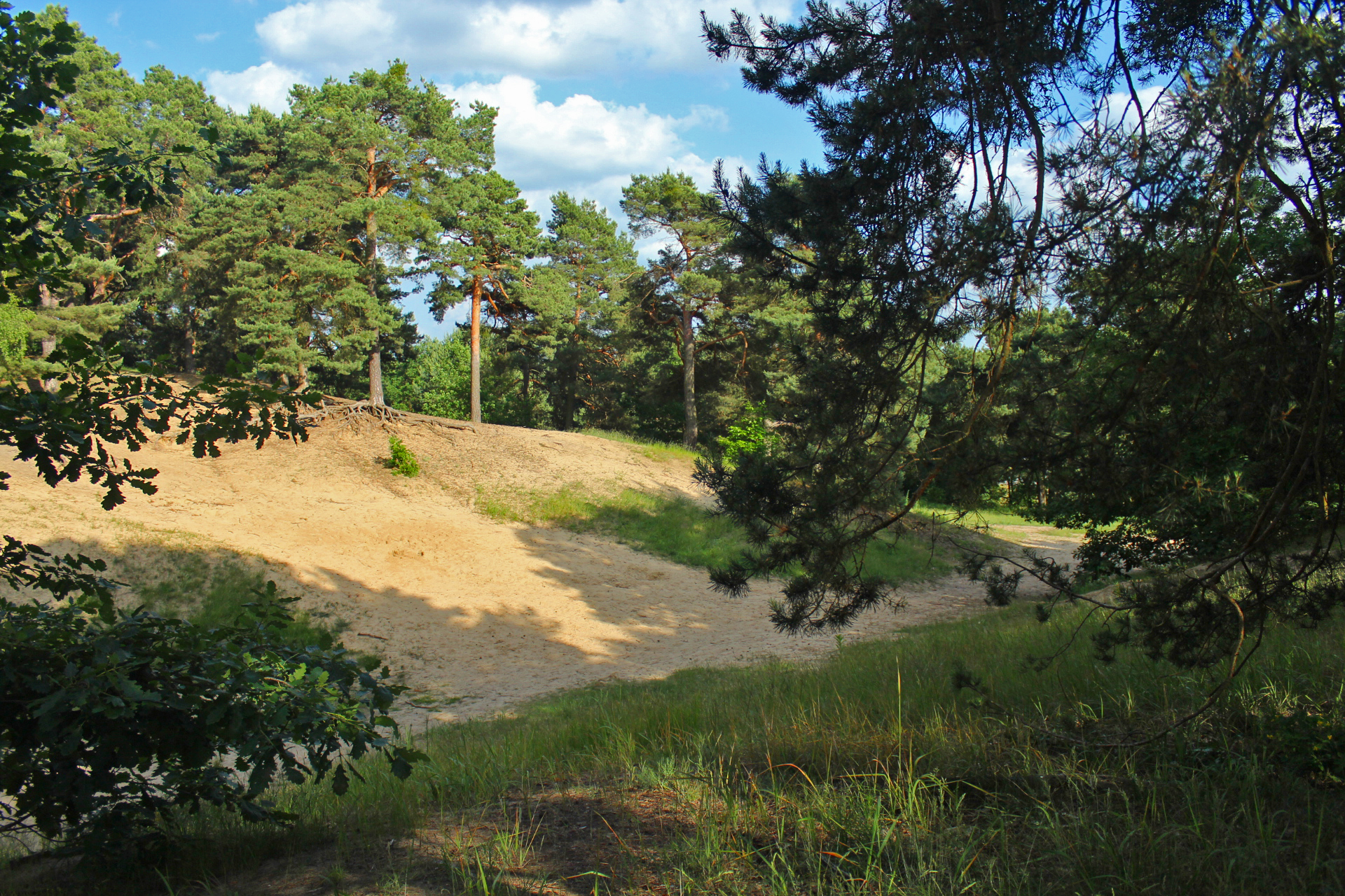 Püttberge in the natural reserve Wilhelmshagen-Woltersdorfer dune. In the near of the dunes you can find the Müggelsee.